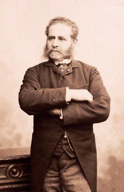 Picture of Salvatore Marchesi